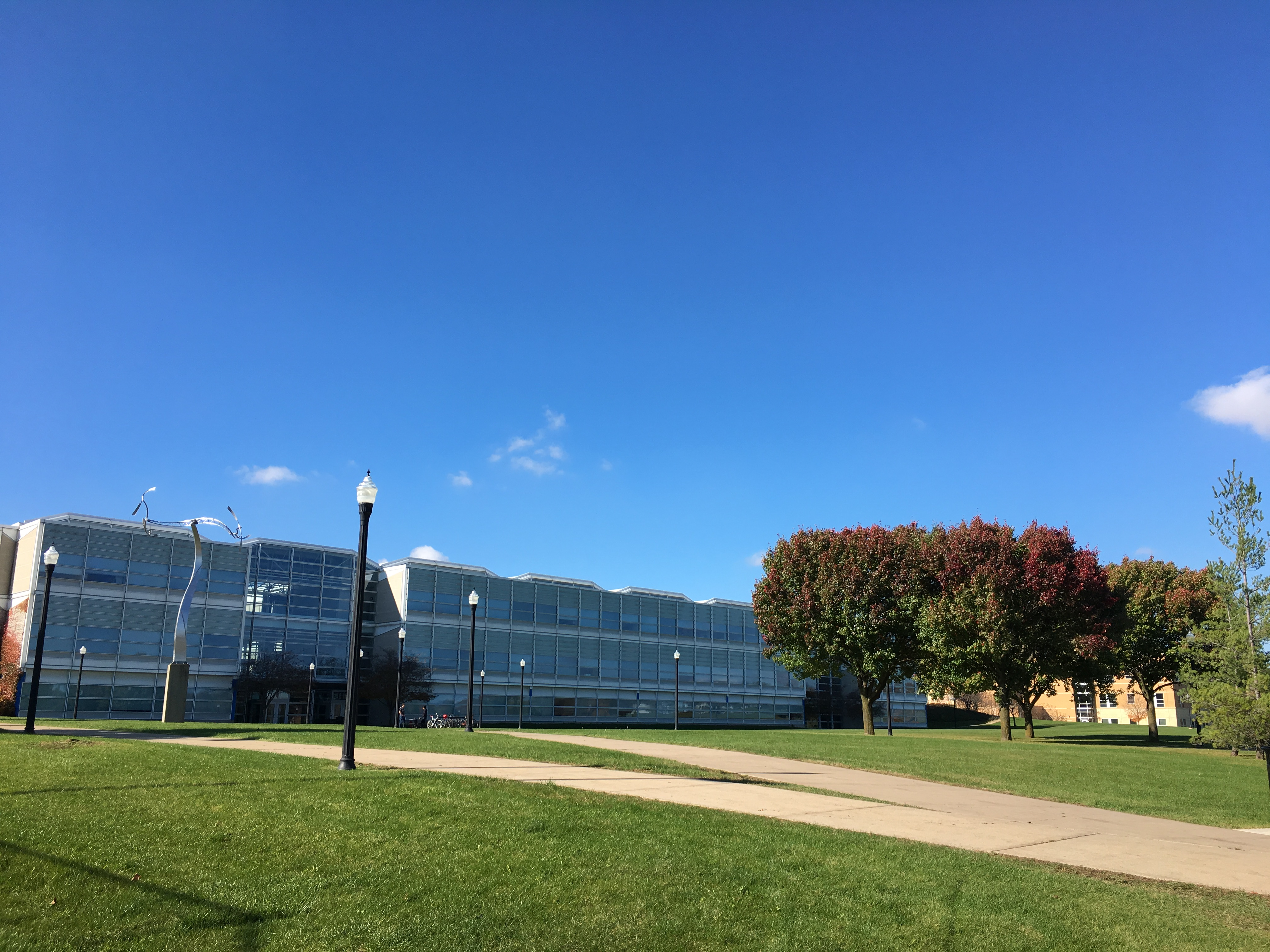 College of Engineering and Engineering Technology (CEET)